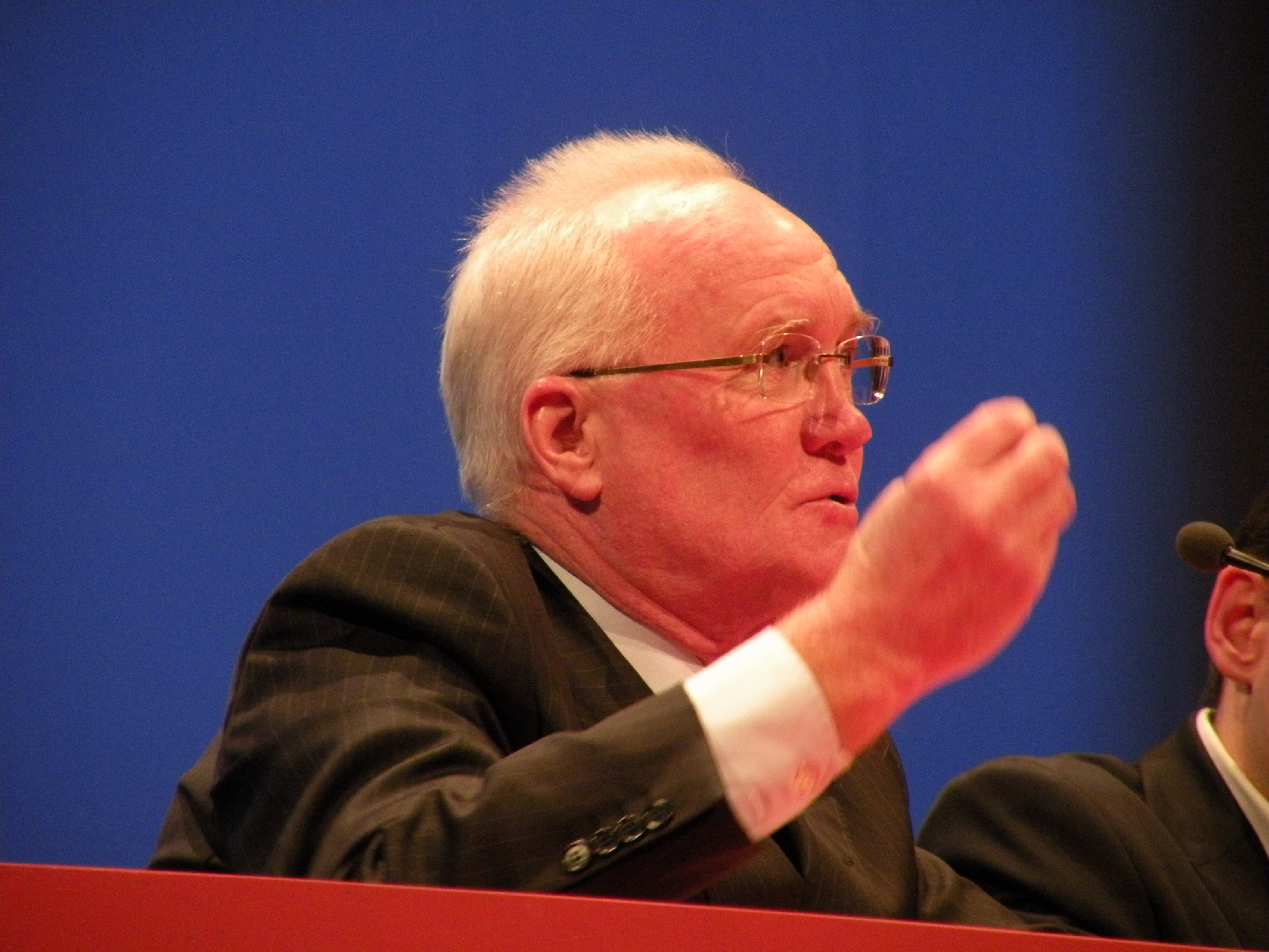 French politician Edmond Hervé during « Forum Libération 2010 » in Rennes.